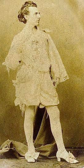 Jan van Beers posing as Sir Anthony van Dyck.